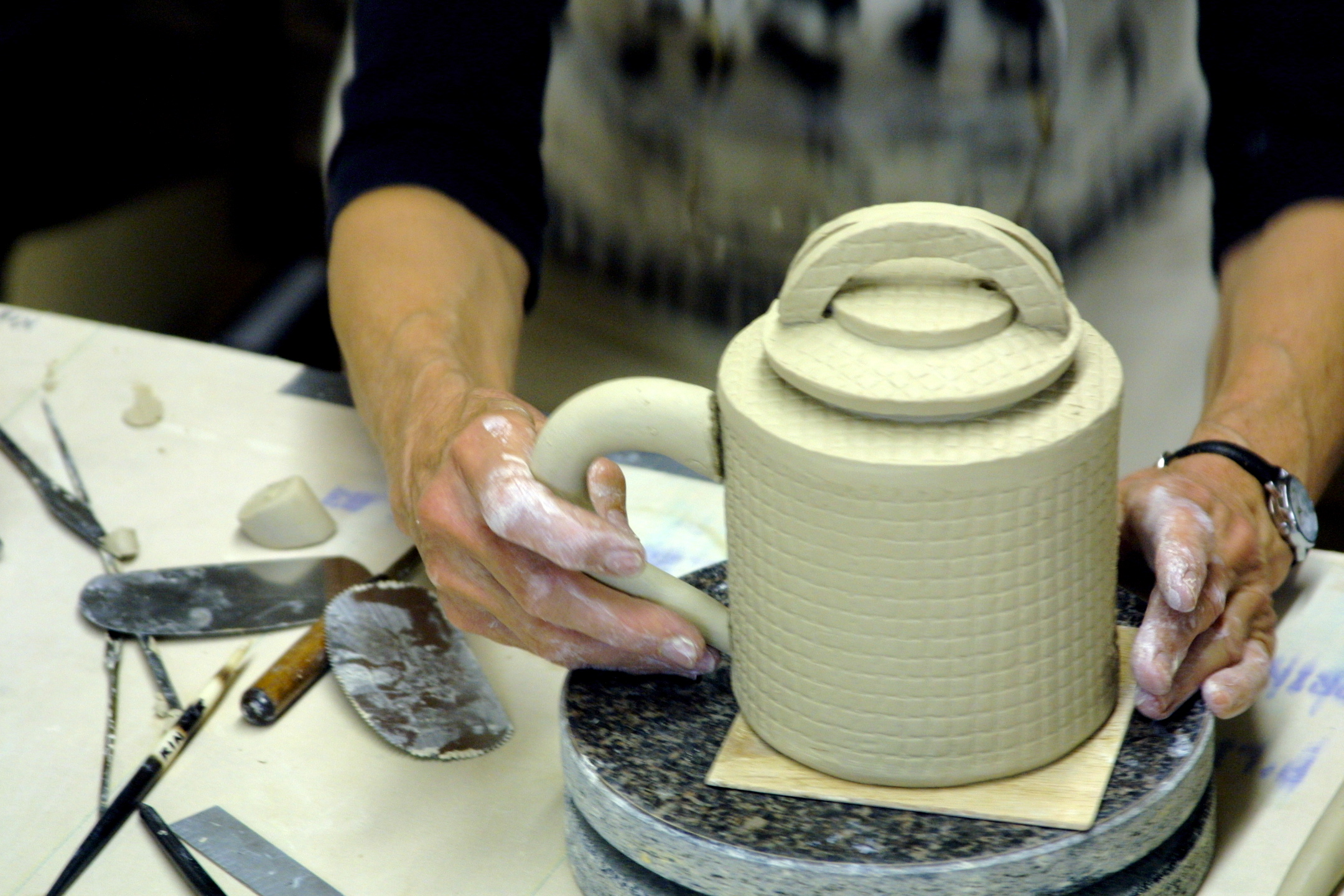 Ceramic teapot process: Placing the handle.